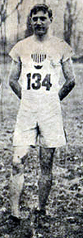 William G Frank, athlet, medalwinner at the 1906 Interlaced Olympic Games The Photo shows Frank as a teammate of the I-AAC 1907 Amateur Athletic Union Cross Country champion team photography, adapted reproduction, no restrictions on use Copyright: free of charges